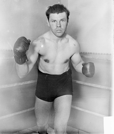 "Three-quarter length portrait of middleweight boxing champion Mickey Walker standing in a boxing stance in a corner of a boxing ring in a room in Chicago, Illinois."